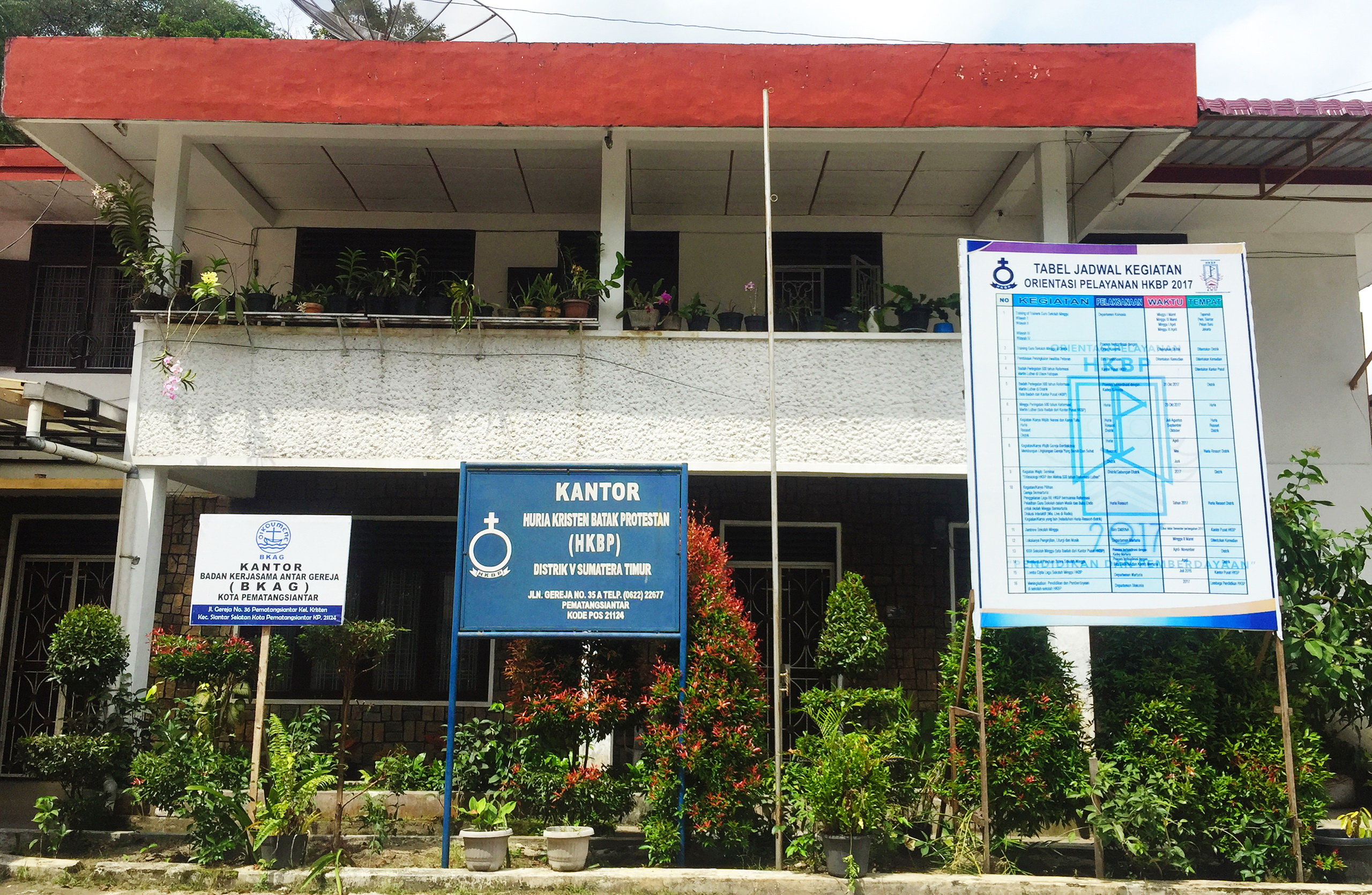 Office of HKBP Distrik V Sumatera Timur in Pematangsiantar